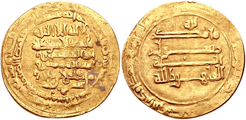 Coin of Mardavij, the founder of the Ziyarid dynasty.